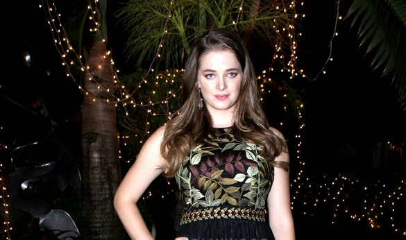 Erika Kaar at special screening of Shivvay in 2016